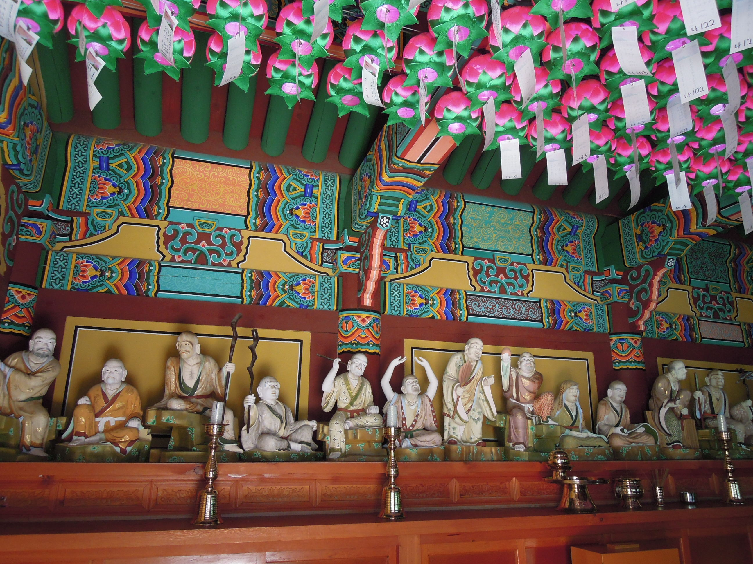 inside the Cheongpyeong Temple